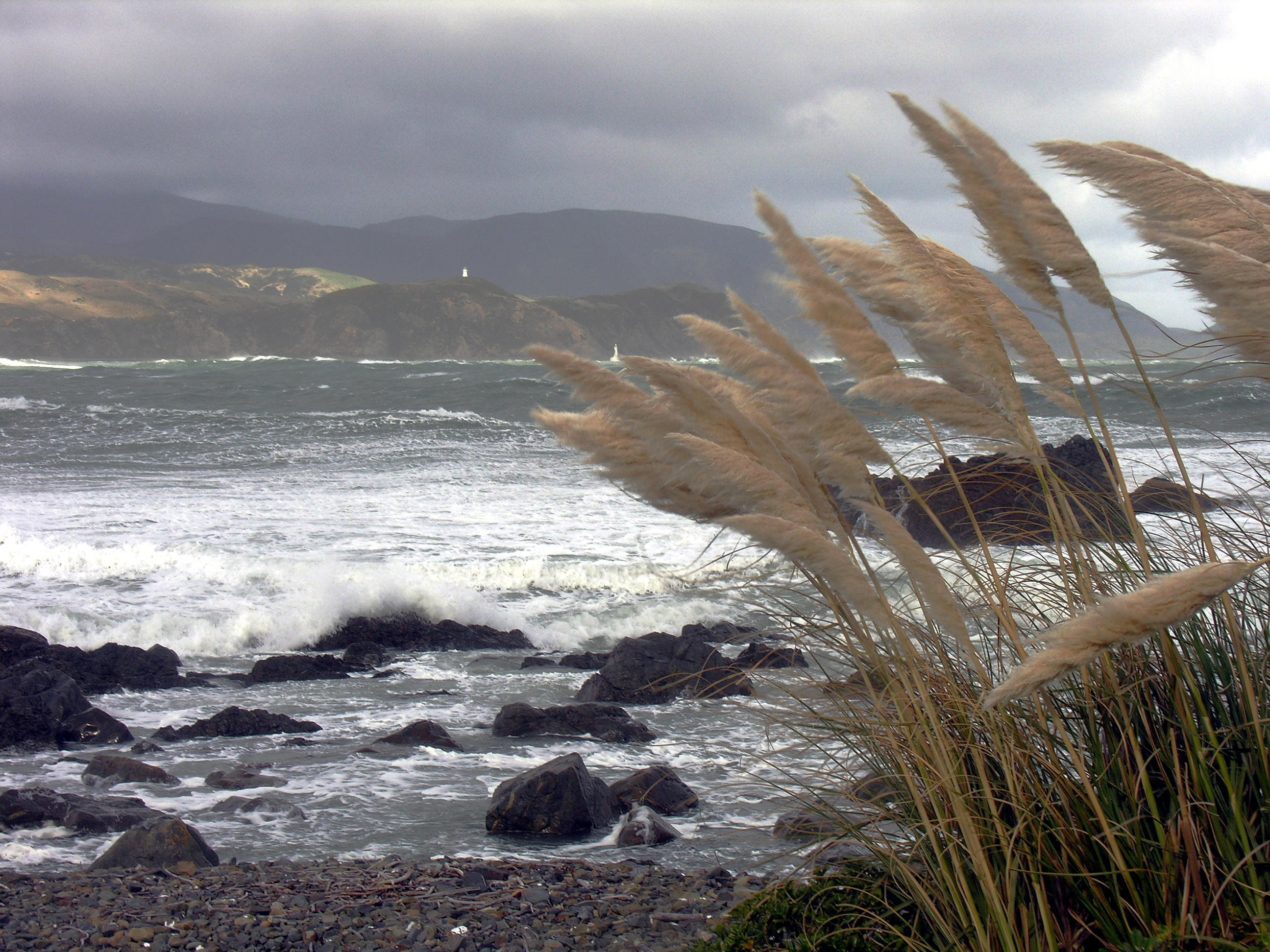 Harbour entrance and Pencarrow Head, Wellington 24 April 2005